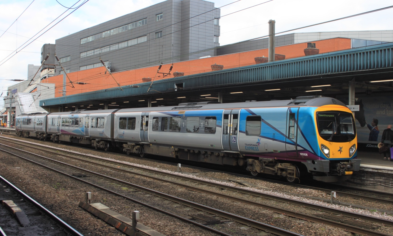 TransPennine Express unit 185106 calls at service from Cleethorpes to Manchester Airport.